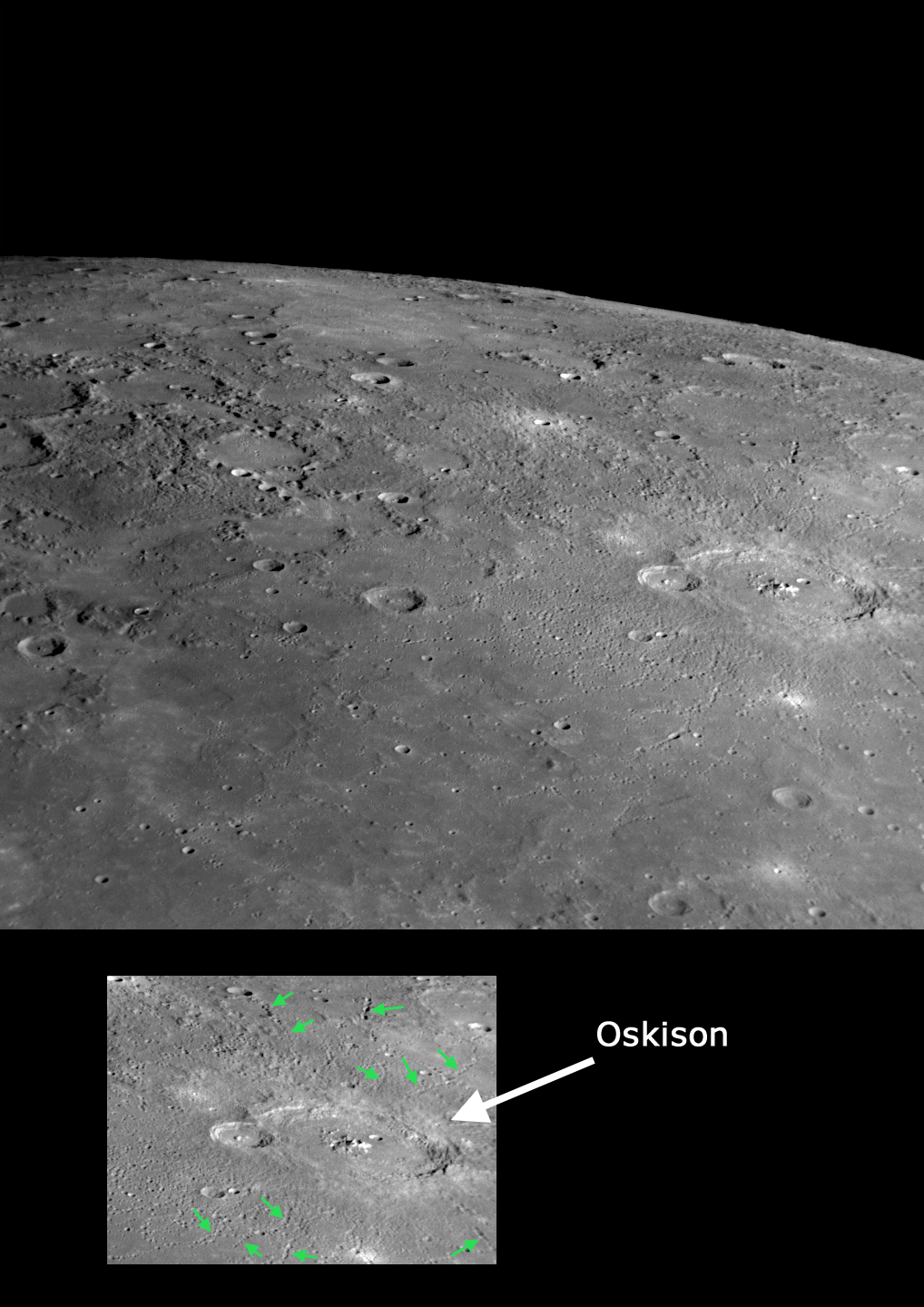 Date Acquired: January 14, 2008 Image Mission Elapsed Time (MET): 108828799 Instrument: Narrow Angle Camera (NAC) of the Mercury Dual Imaging System (MDIS) Resolution: 550 meters (0.34 miles) per pixel Scale: Oskison is 120 kilometers (75 miles) in diameter Spacecraft Altitude: 21,700 kilometers (13,500 miles) Of Interest: The crater Oskison is located in the far northern hemisphere of Mercury, in the plains north of Caloris basin. Oskison is a distinctive crater with a large central peak that exposes material excavated from depth. In this NAC image, many chains of secondary craters are visible (green arrows), radiating from Oskison outward onto the surrounding smooth plains. Oskison was just named in November 2008 for John Milton Oskison, a Cherokee author (1874-1947). Credit: NASA/Johns Hopkins University Applied Physics Laboratory/Carnegie Institution of Washington